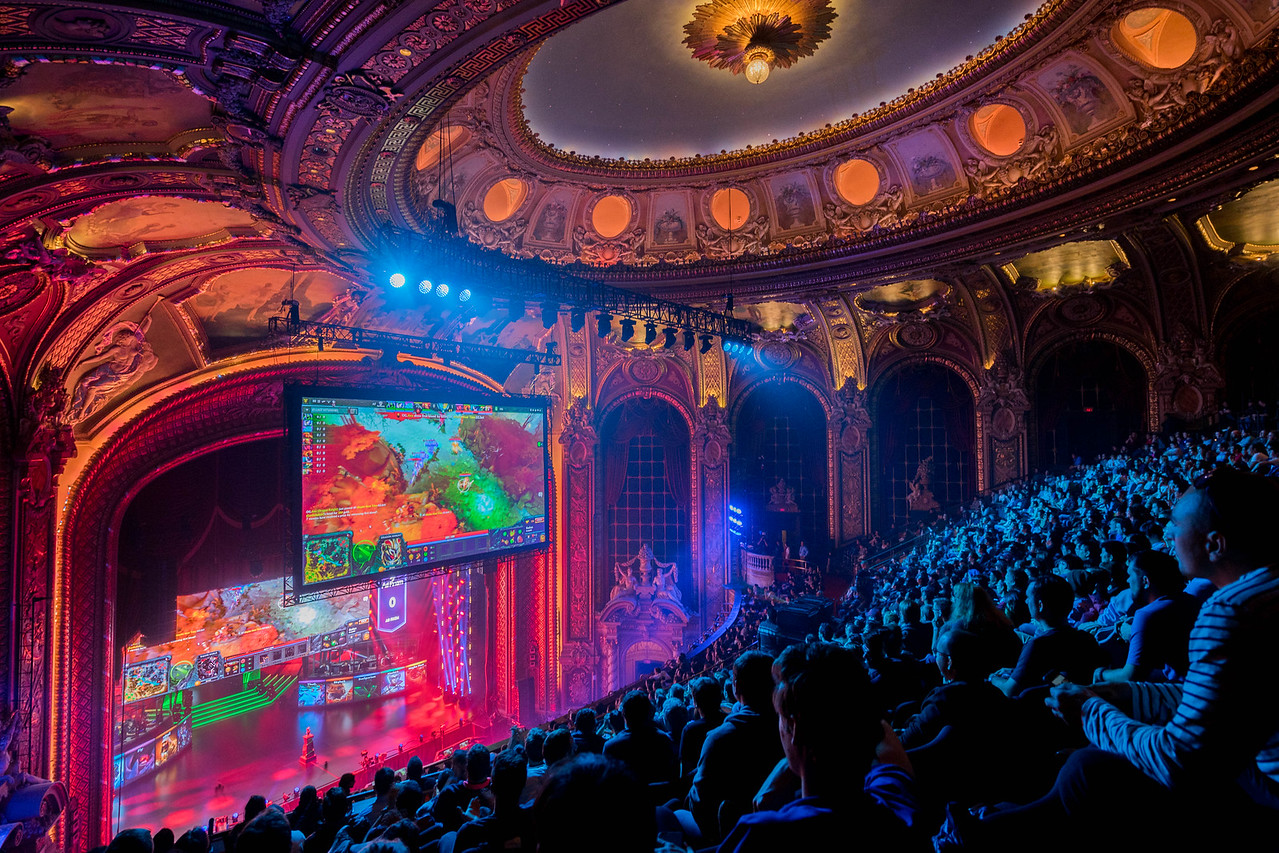 A photo of the Boston Major 2016 grand finals match between Ad Finem and OG. Taken in the Wang Theatre on Dec 10 2016.